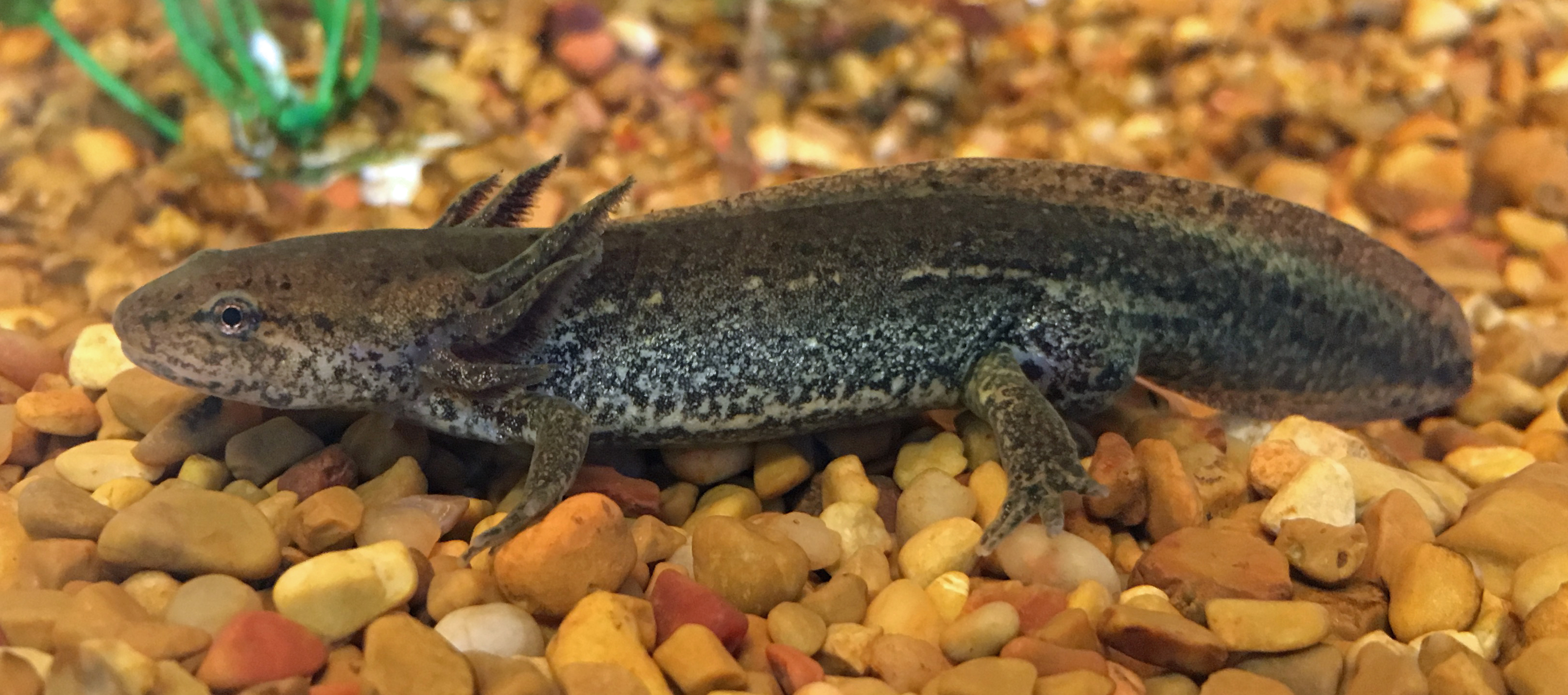 A paedomorphic male Ambystoma talpoideum (mole salamander) in an aquarium at the University of Mississippi Field Station